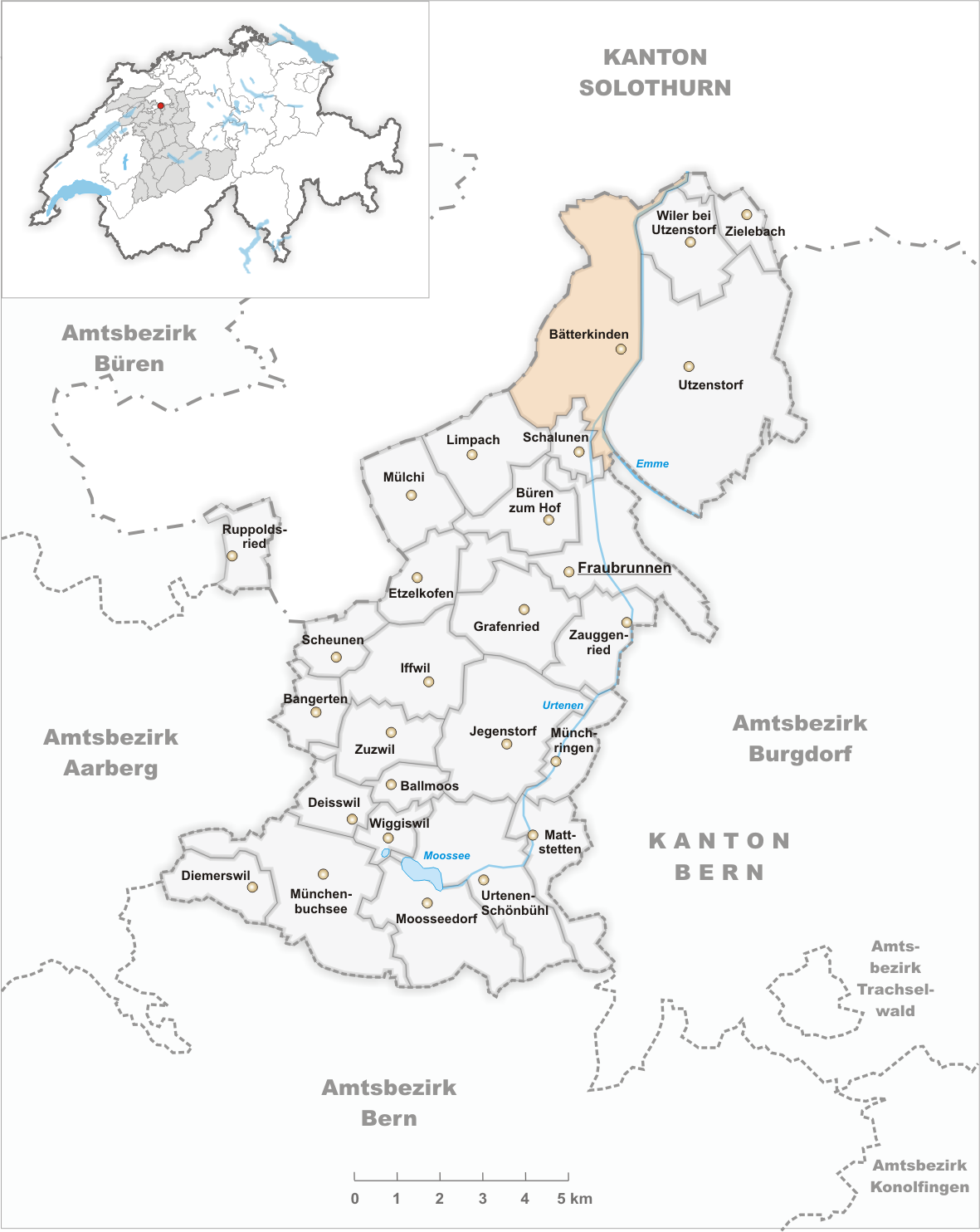 Municipality Bätterkinden